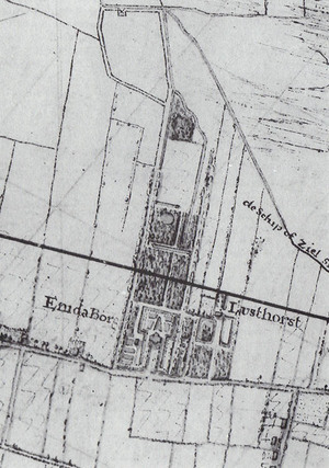 Location of Emdaborg on topological map, created by J.H. Hottinger in 1792.